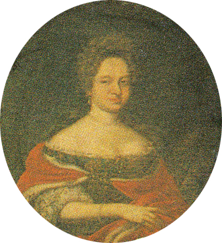 Sophie Marie of Hesse-Darmstadt